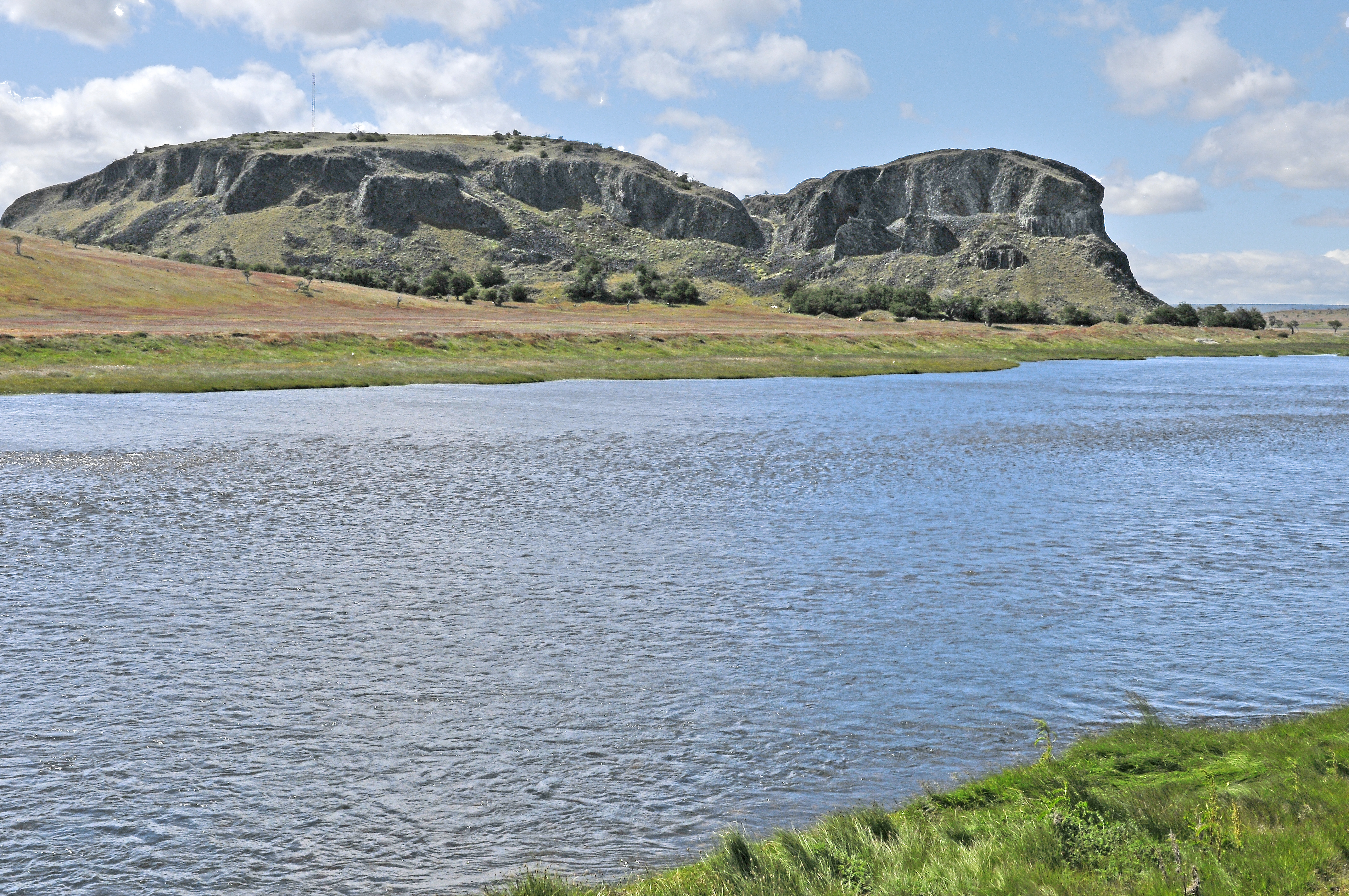 The Morro Chico, behind the Penitente River. Laguna Blanca, Magallanes, Chile